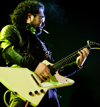 Alex Marín y Kall con Veo Muertos